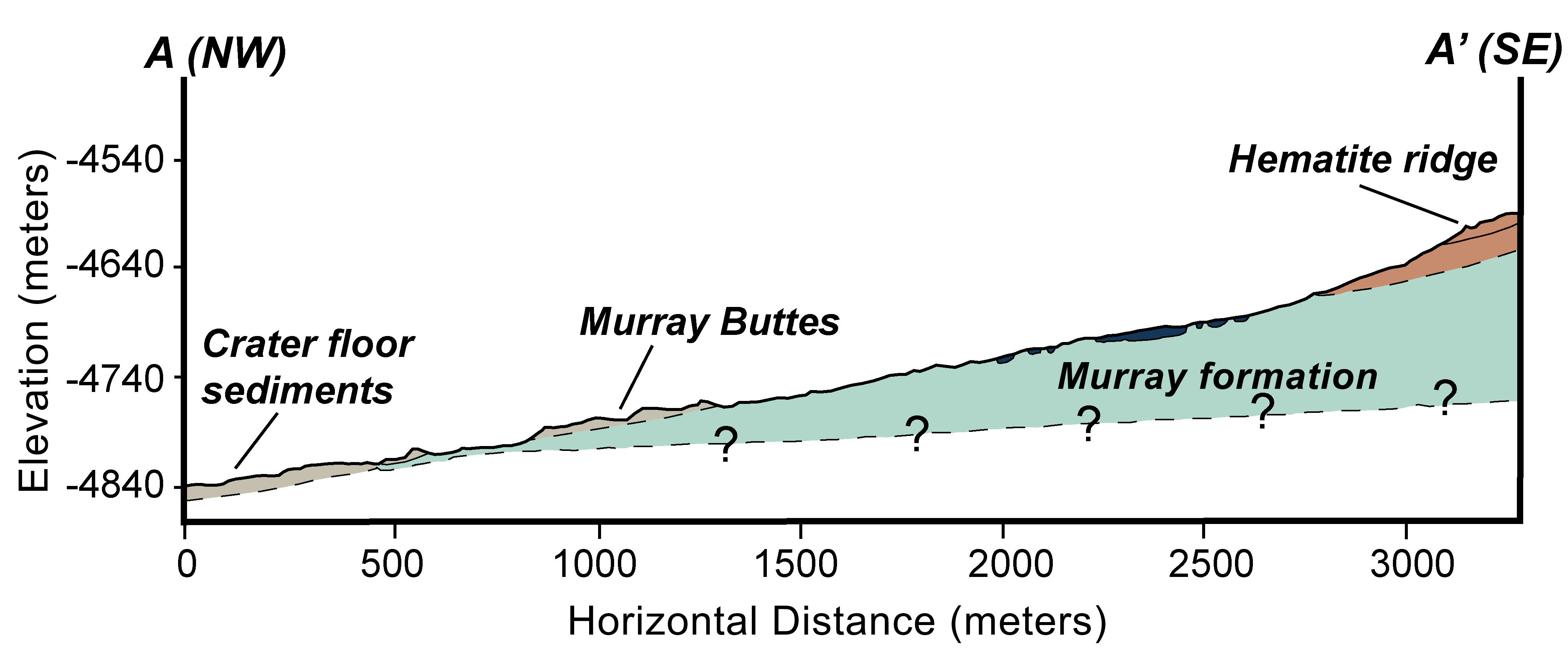 09.11.2014 Geologic Cross-Section - Slopes of Aeolis Mons in Gale Crater on the planet Mars. This graphic shows the geologic cross-section through lower Mount Sharp on Mars, corresponding to the segment A to A' shown in PIA18781. This cross-section provides an interpretation of the geologic relationship between the "Murray Formation," the crater floor sediments, and the hematite ridge. The cross-sectional view also highlights the impressive thickness of the Murray Formation - around 650 feet (200 meters). NASA's Curiosity rover will be exploring this formation. NASA's Jet Propulsion Laboratory, a division of the California Institute of Technology, Pasadena, manages the Mars Science Laboratory Project for NASA's Science Mission Directorate, Washington. JPL designed and built the project's Curiosity rover.